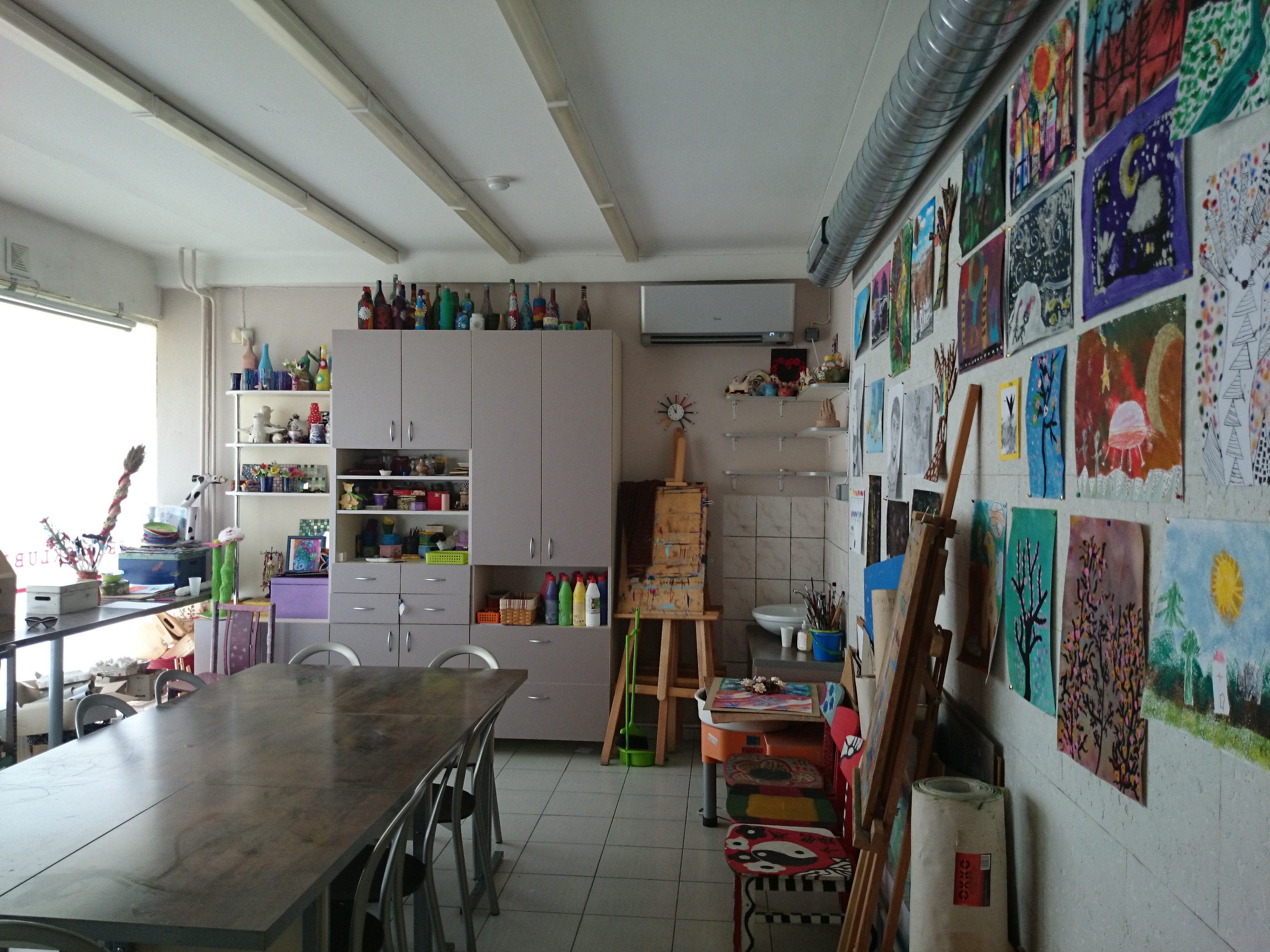 Klubas Šatrija Dailė